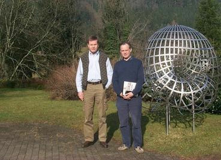 Martin J. Taylor (right) with Jürgen Ritter, Oberwolfach 2002